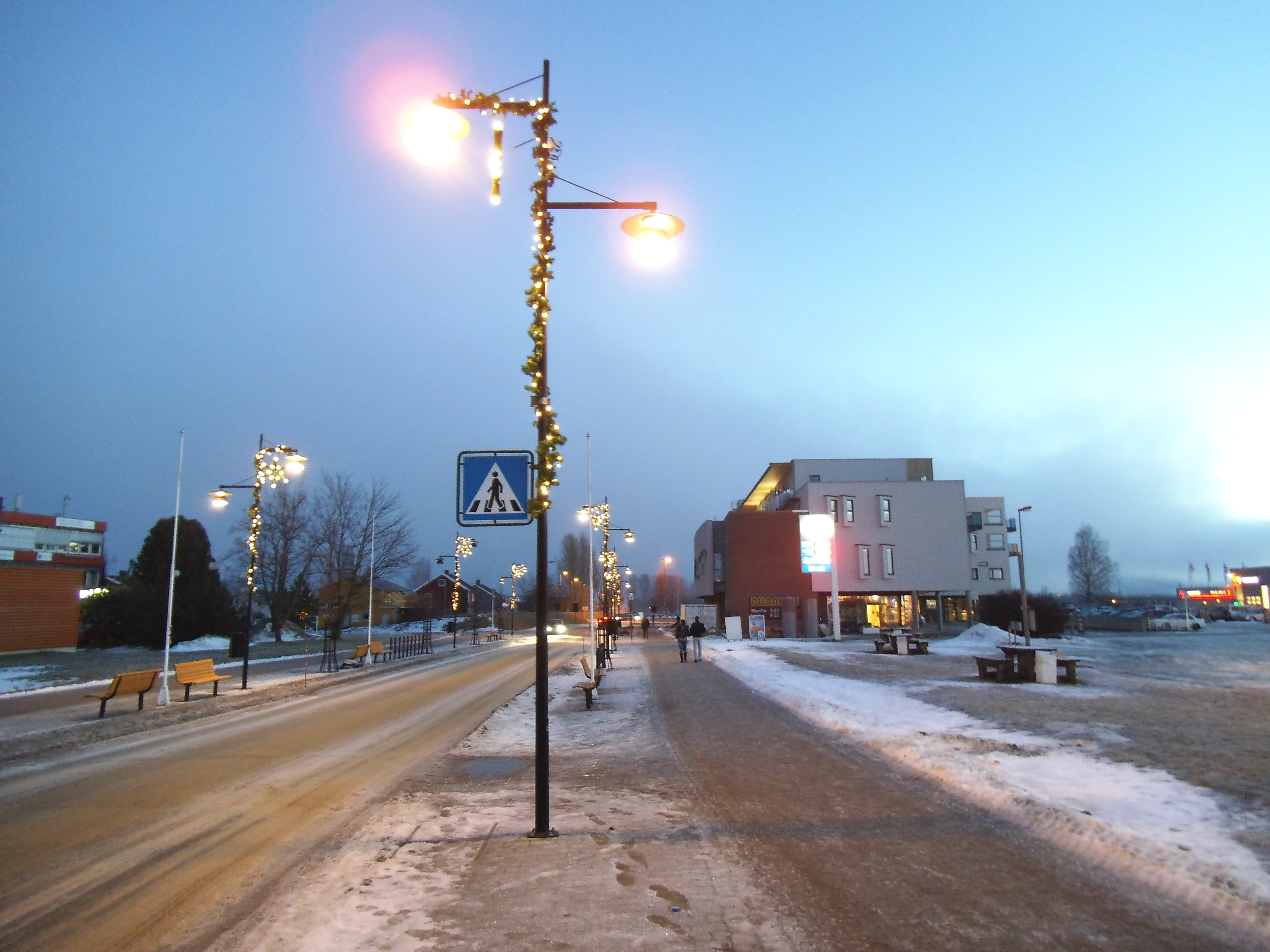 Main street in Melhus. A foggy winter day, 1th January 2013.